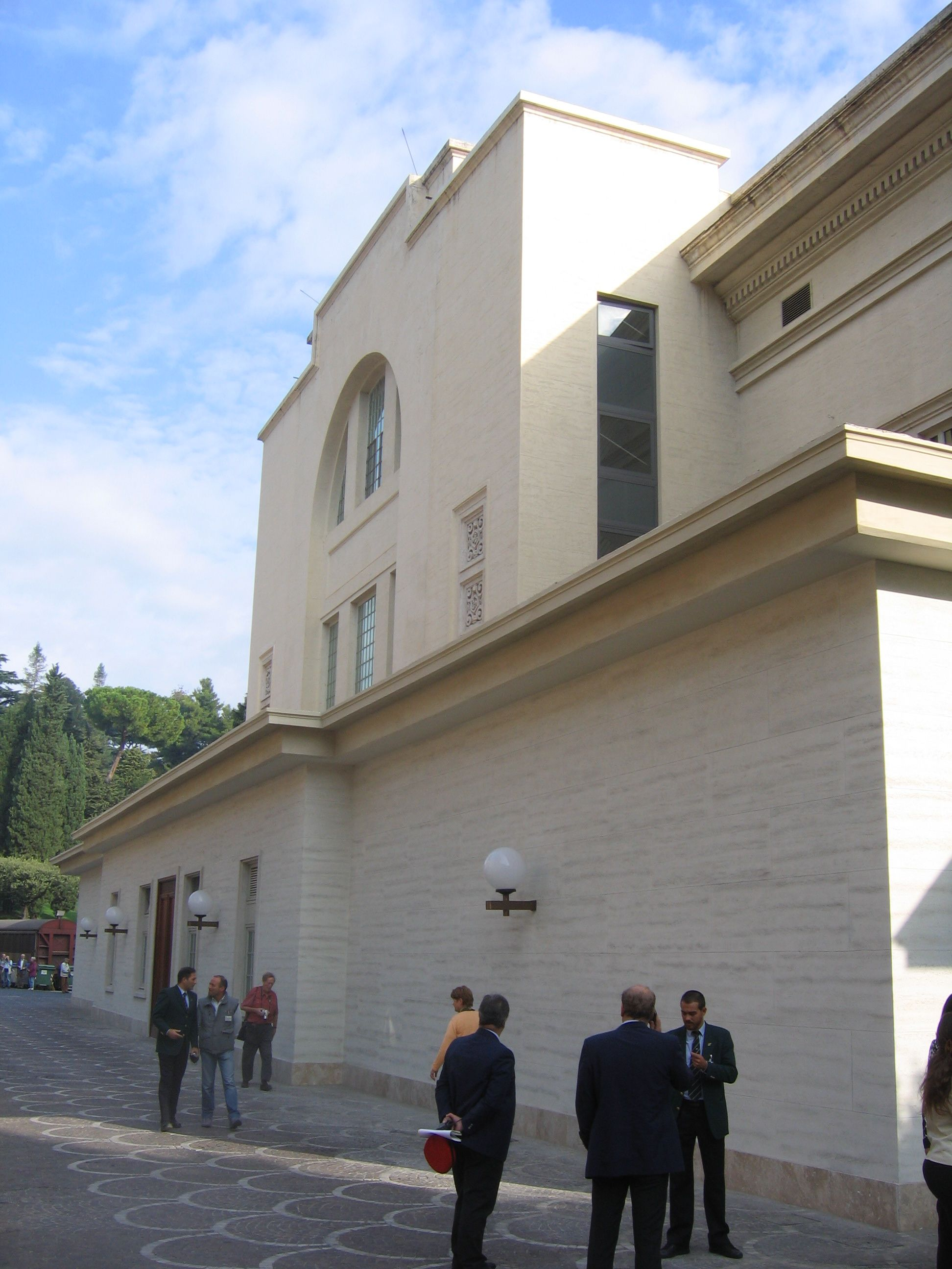 Railway Station Vatican, Platform